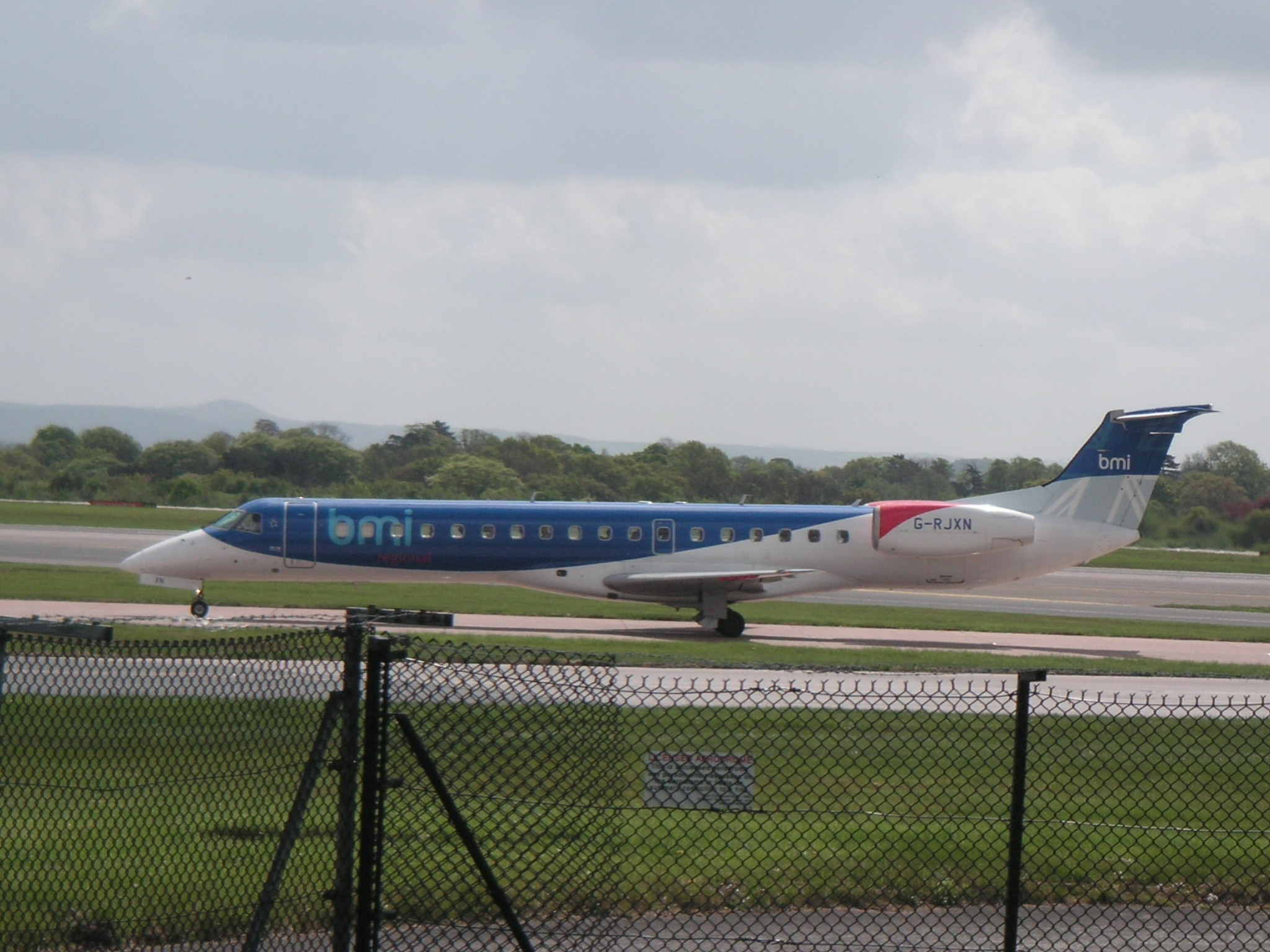 BMI Regional on taxiway in Manchester